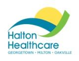 Refreshed Halton Healthcare logo (2014).